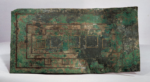 "Zhongshan Zhaoyutu", map of the tomb of the king of Zhongshan state. Zhongshan is a small country during Warring States period of China. This map, made of copper, gold and silver, was unearthed in the tomb of one king of the Zhongshan country.